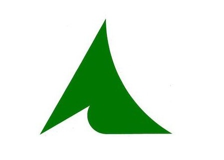 Flag of Tenkawa Nara